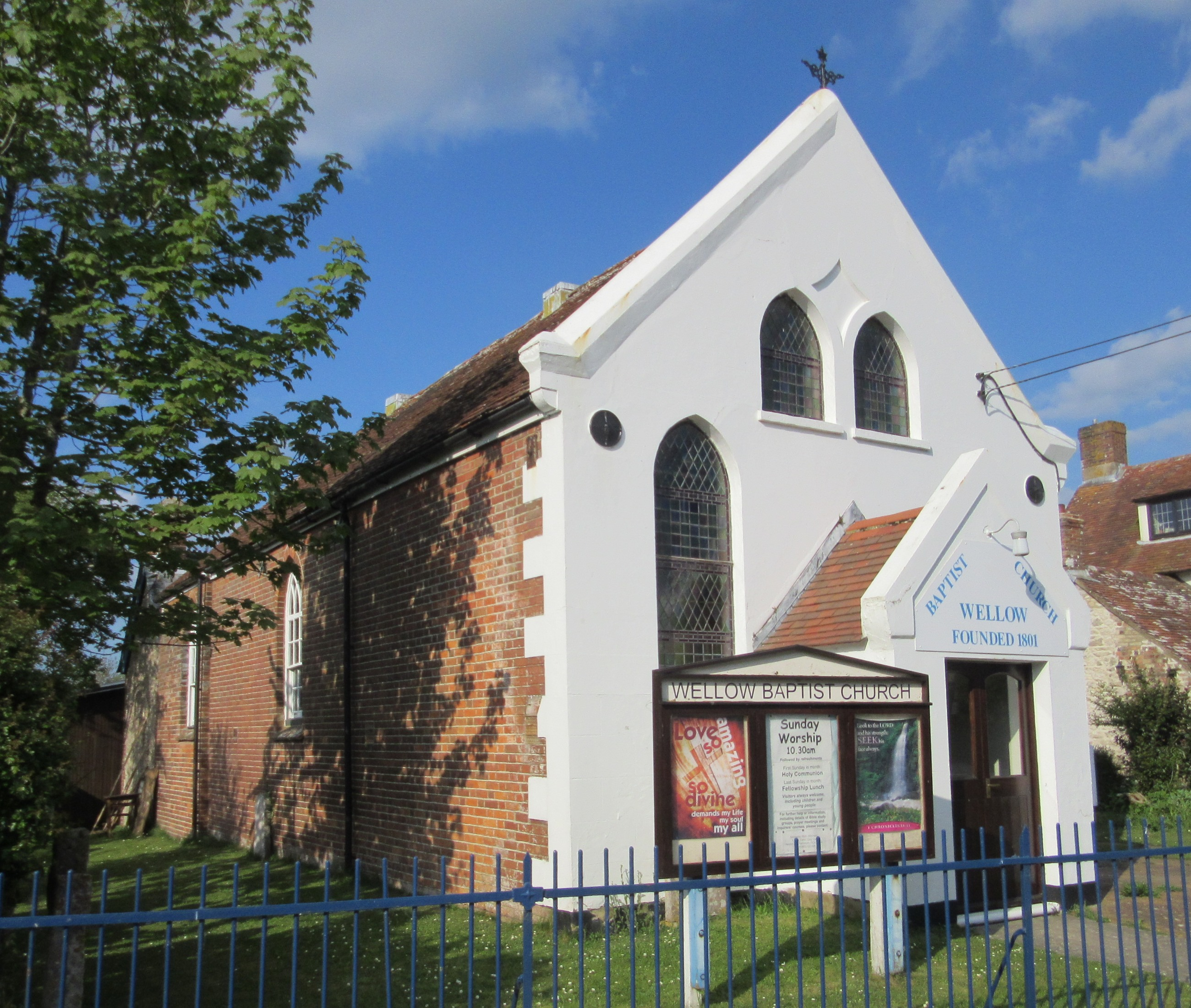 Wellow Baptist Church, Main Road (B3401), Wellow, Isle of Wight, England. It dates from 1814 and is a locally listed building.